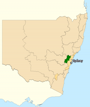 This image incorporates data that is: © Commonwealth of Australia (Australian Electoral Commission) 2009 Division of Macquarie 2010